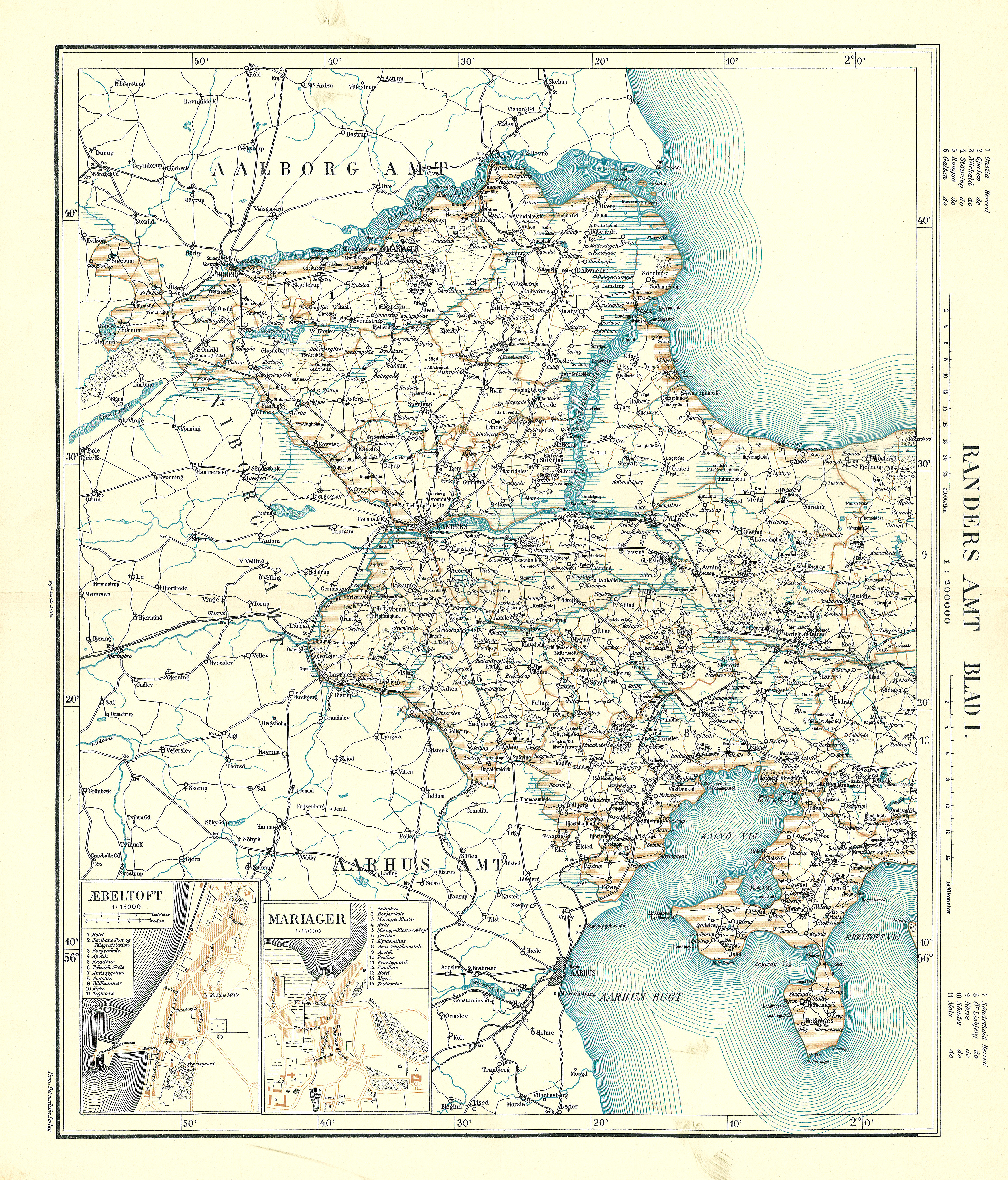 Map of the western part of Randers County in Denmark